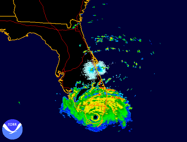 This is a radar image of Hurricane Andrew from NWS Melobourne NEXRAD radar and was made using JAVA NEXRAD tool.